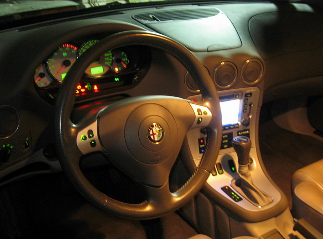 New Alfa Romeo 166 Sportronic driving seat.